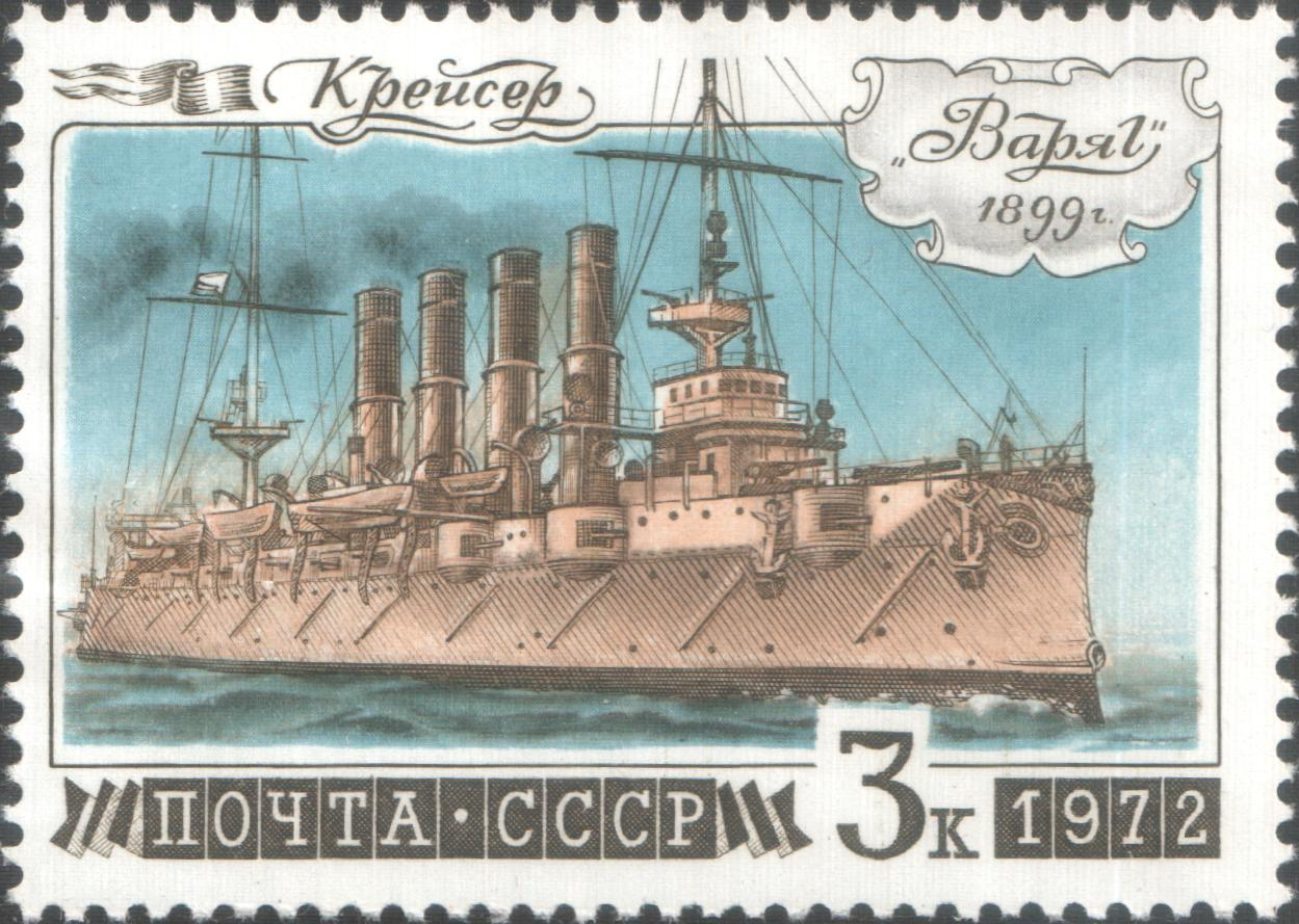 USSR stamps